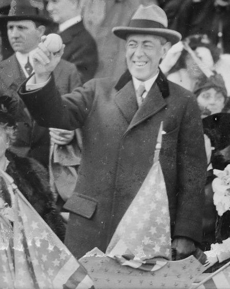 President Woodrow Wilson throws out the first pitch at the 1915 World Series. To his left is his mother in-law, Sallie White Bolling (1843-1925)} and to his right is mayor Rudolph Blankenburg